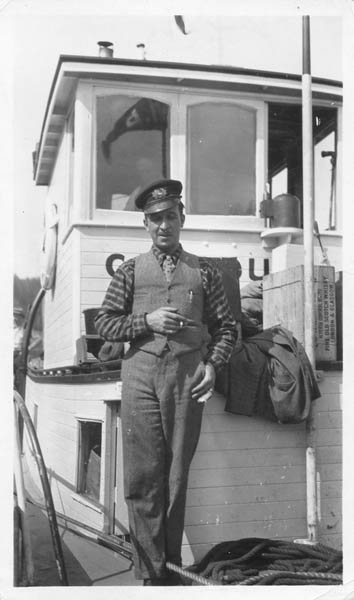 Emrys Jones aboard "Canadusa" at Waterways